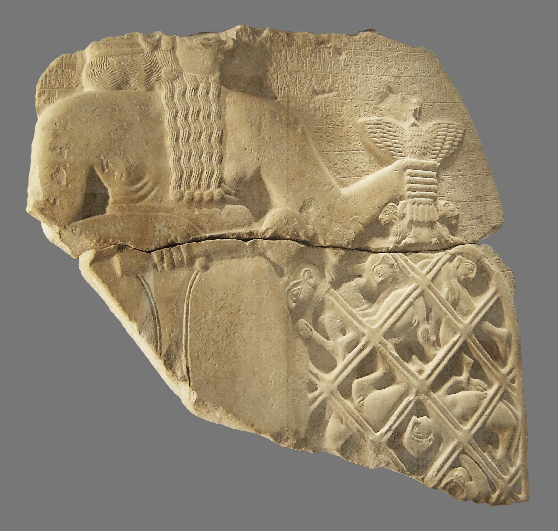 One fragment of the victory stele of the king Eannatum of Lagash over Umma, called « Stele of Vultures ». Mythological side. Limestone, circa 2450 BC, Sumerian archaic dynasties. Found in 1881 in Girsu (now Tello, Iraq), Mesopotamia, by Édouard de Sarzec.